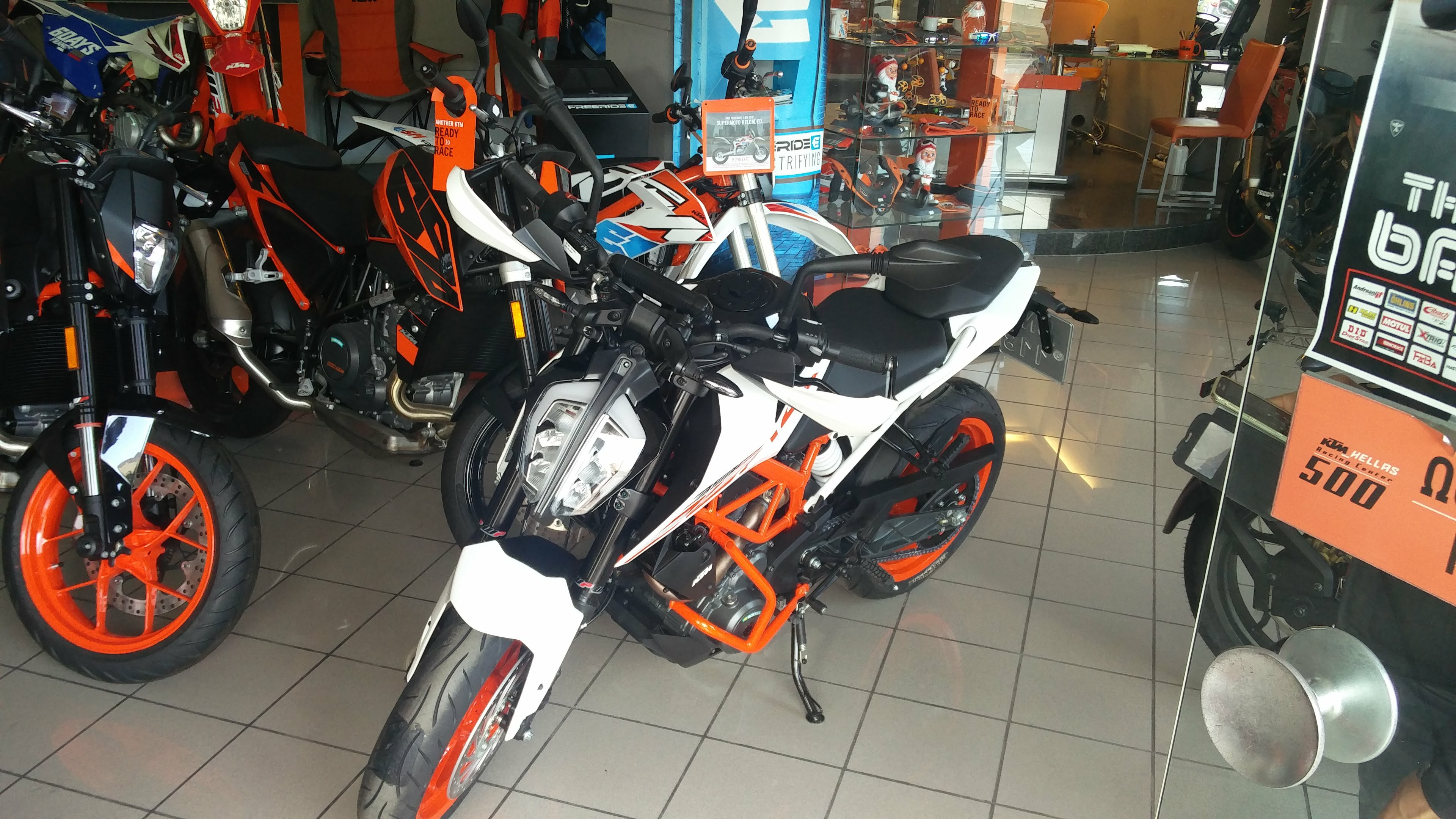 KTM 390 Duke 2017